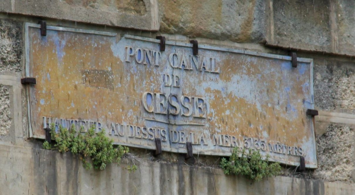 A closeup of the sign on the Cesse River aqueduct carrying the Canal du Midi.